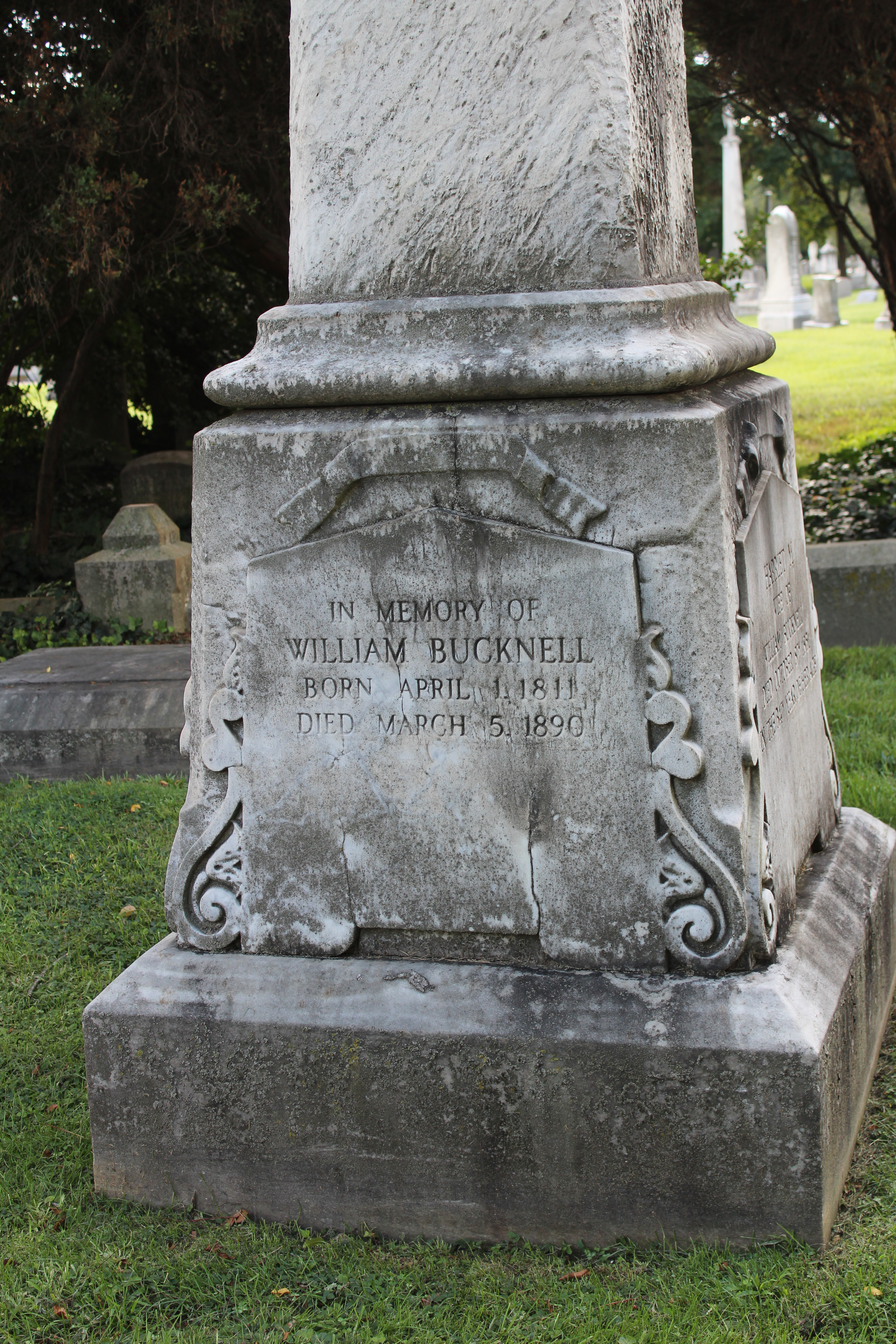 William Bucknell grave at the Woodlands Cemetery in Philadelphia, Pennsylvania. Photo taken August 2019.